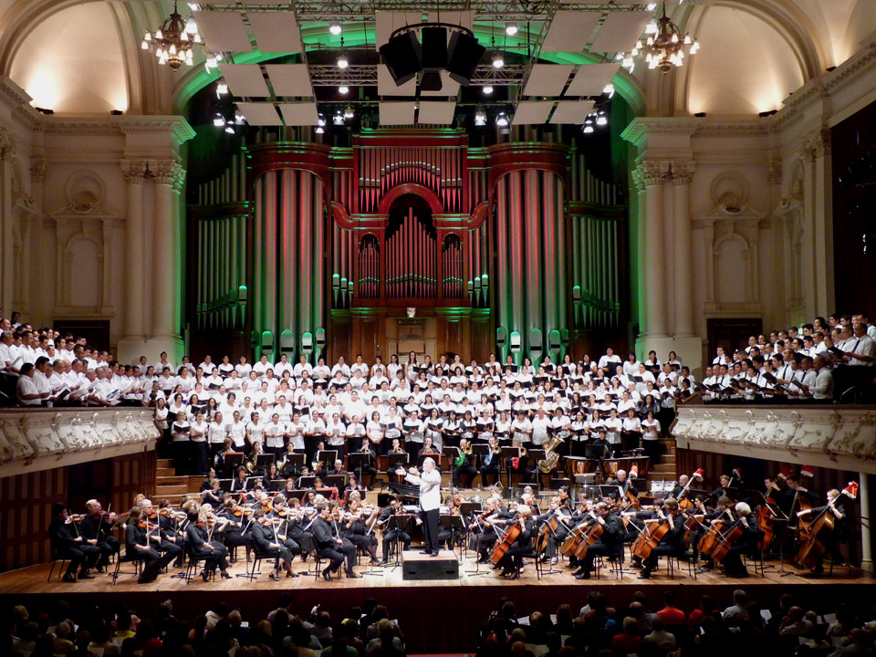 New Zealand conductor and composer Gary Daverne ONZM conducting the 2010 Carol Concert at the Auckland Town Hall with the Auckland Symphony Orchestra and combined Pacific Island Church choirs.